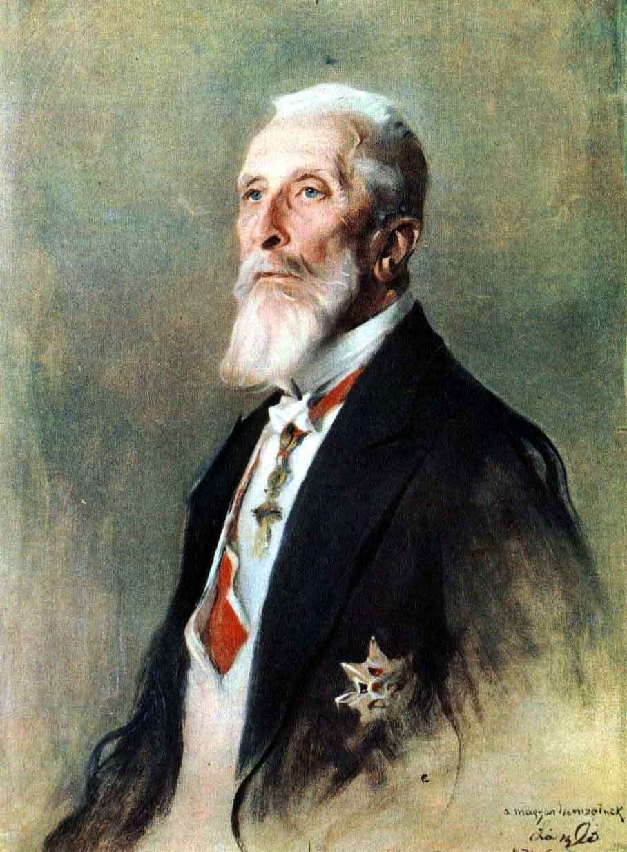 Portrait of Albert Apponyi